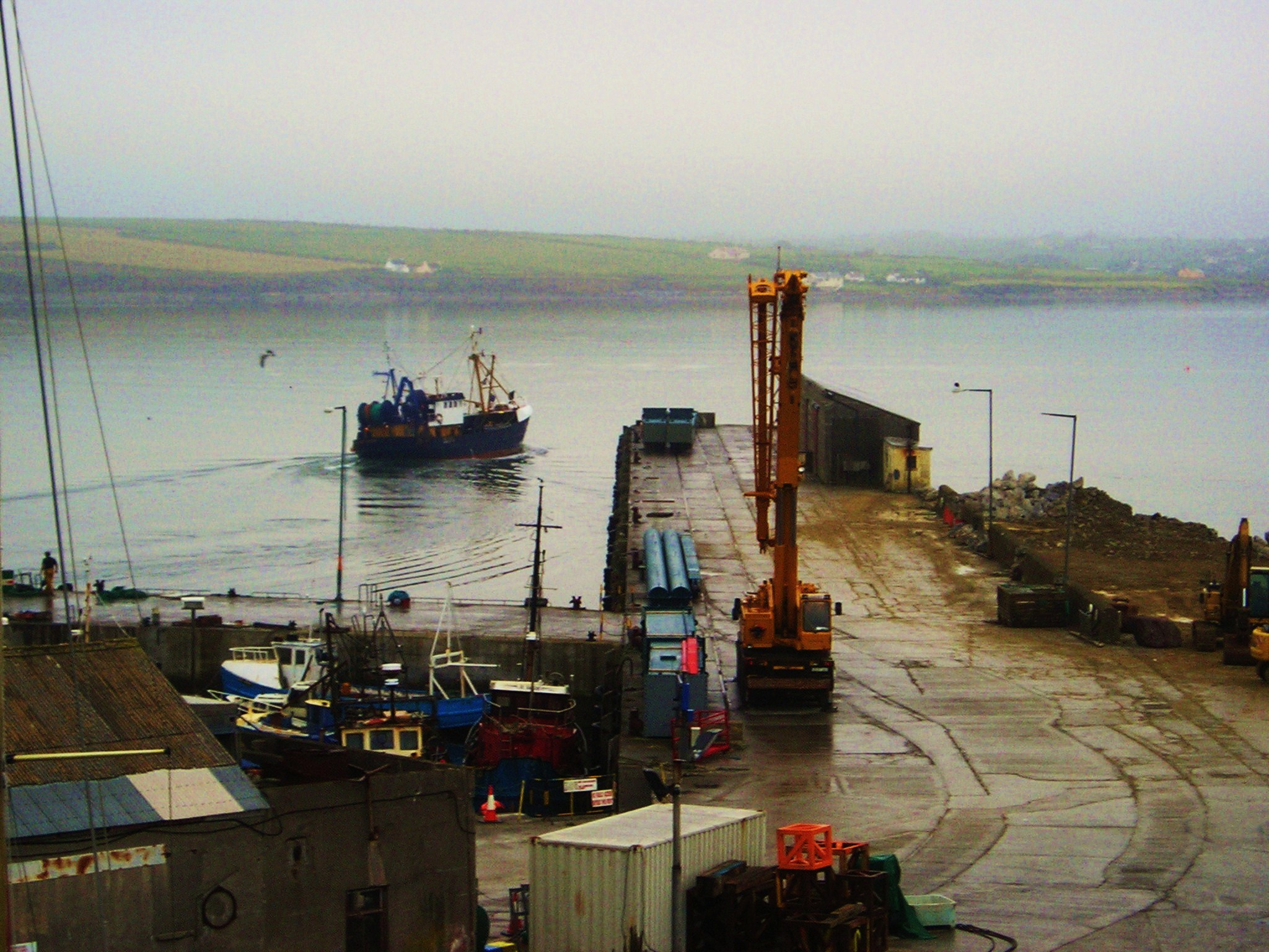 Fenit harbor in the summer of 2004